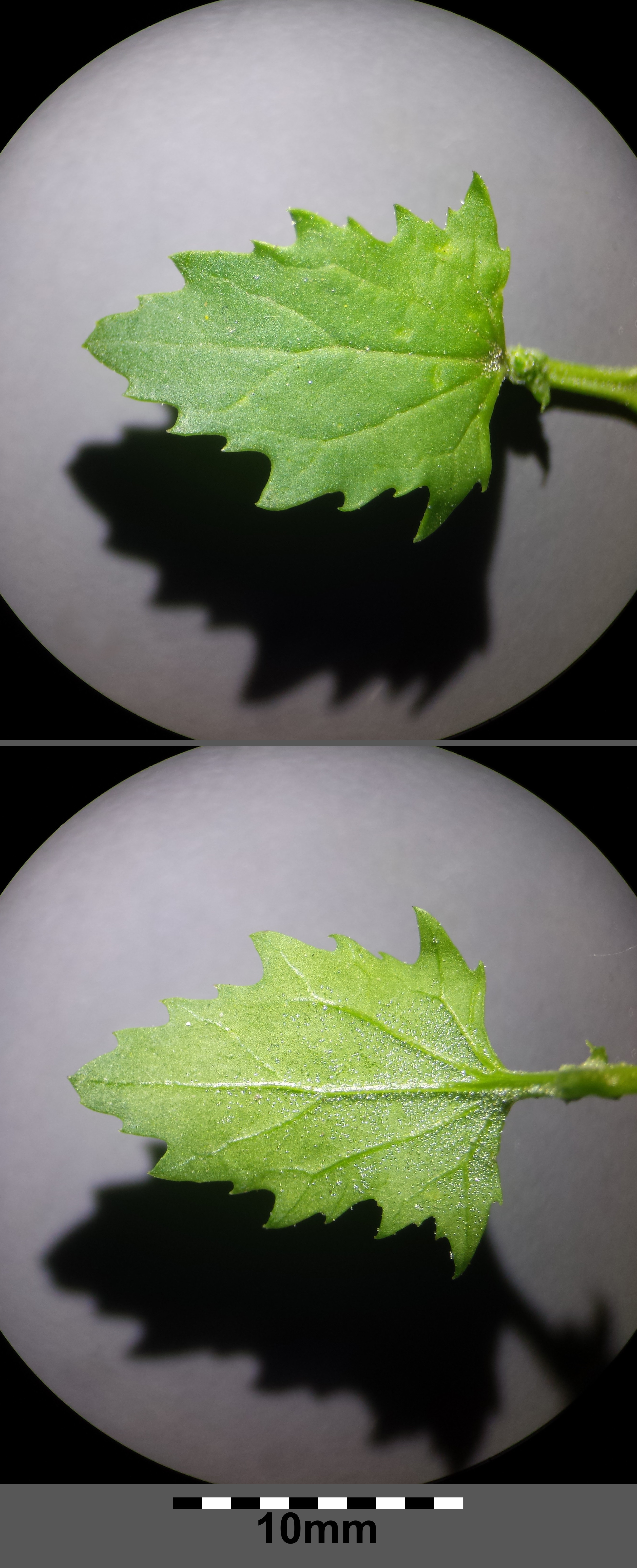 Leaf, top and bottom side Taxonym: Chenopodium murale ss Fischer et al. EfÖLS 2008 ISBN 978-3-85474-187-9 Location: Stockerau, district Korneuburg, Lower Austria - ca. 170 m a.s.l. Habitat: flower bed